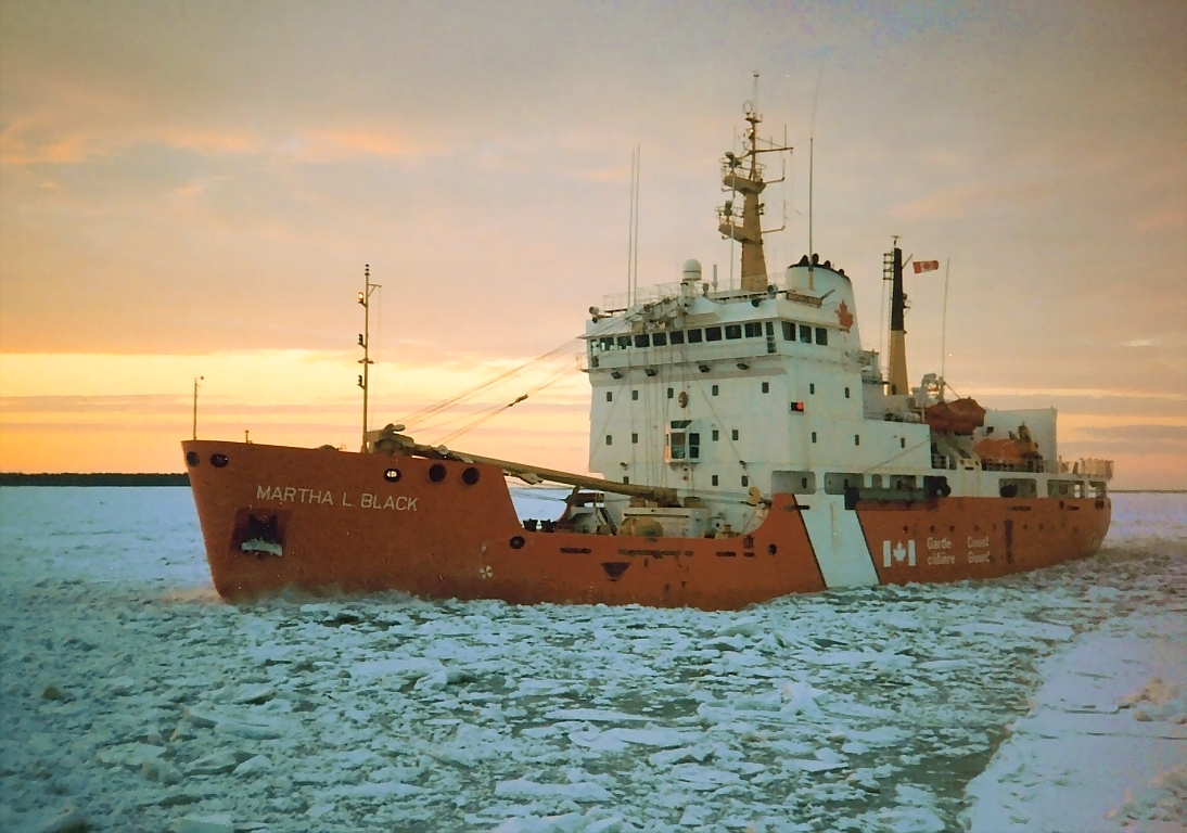 CCGS Martha L.Black, Canadian Coast Guard ship, near Rimouski harbour, Qc .